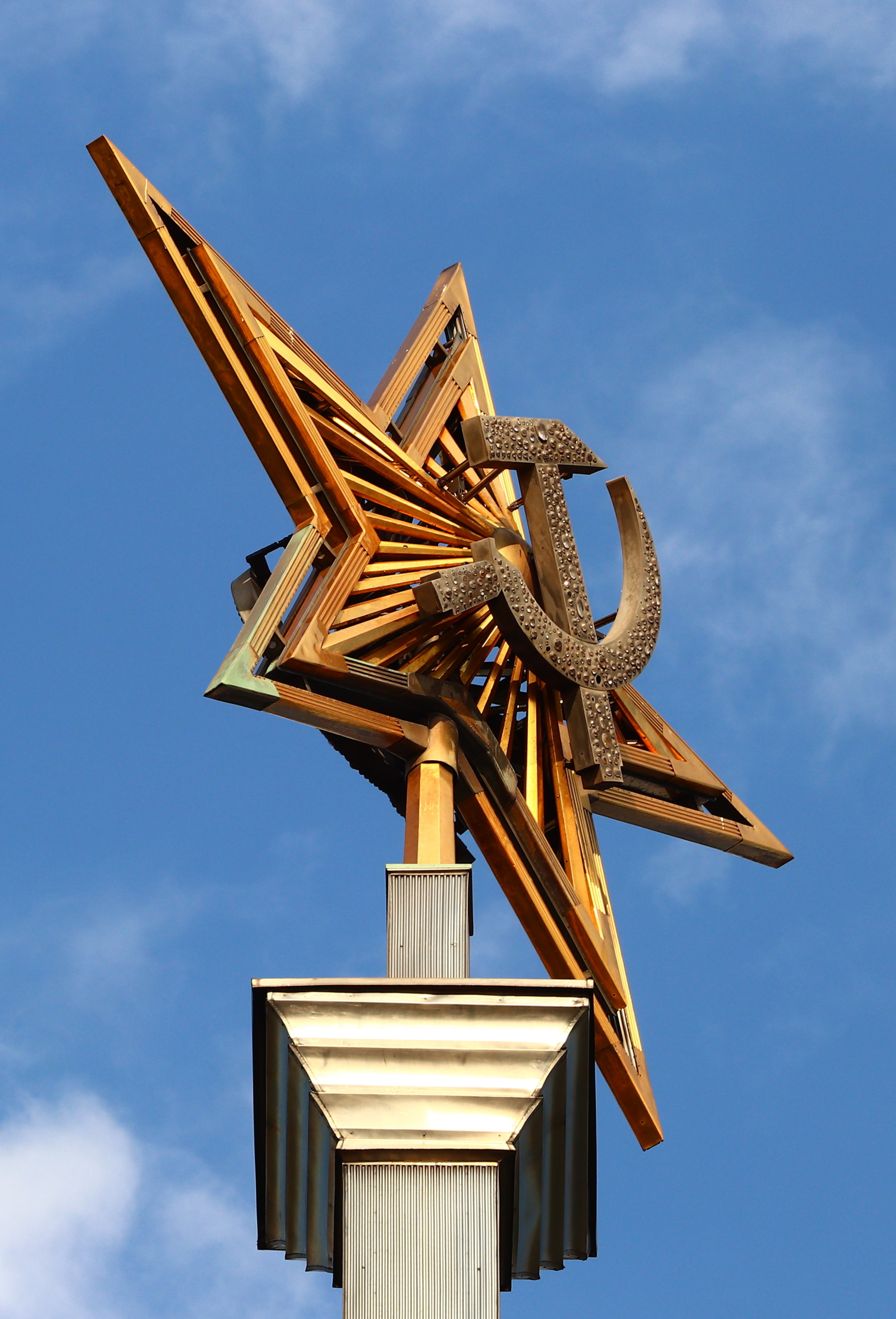 North River Terminal: Leningradskoye shosse, dom 51, Levoberezhny, Severny okrug, Moskva